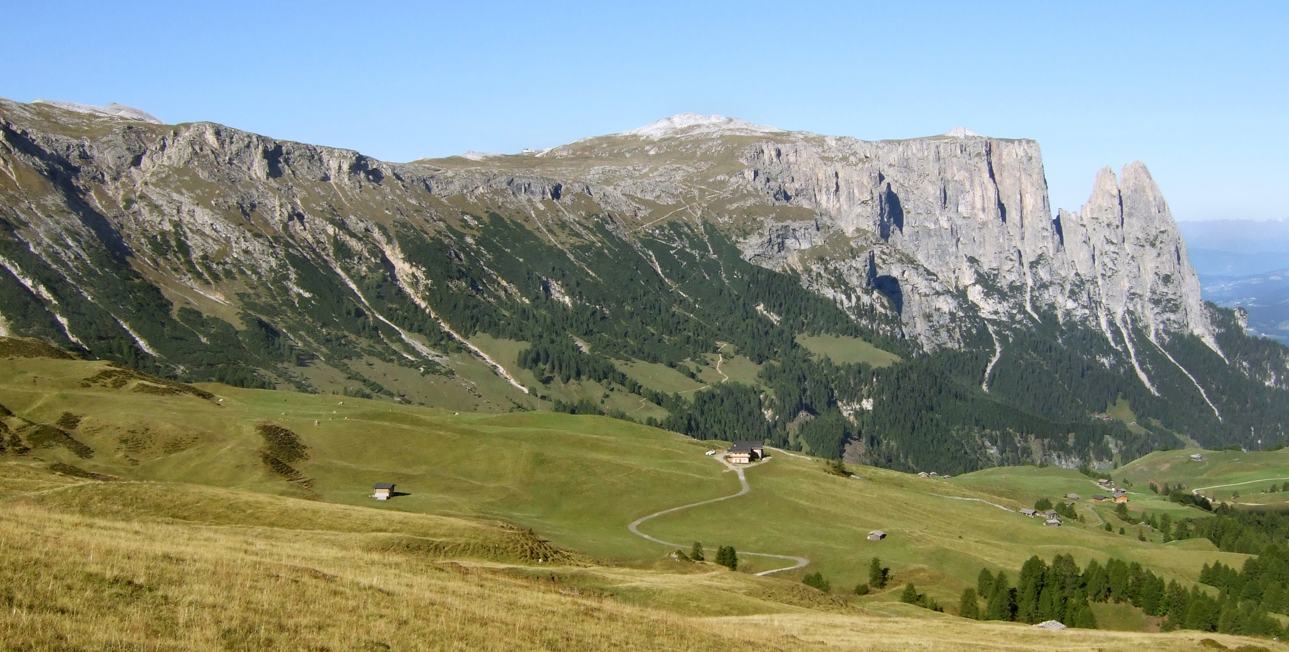 Schlern mountain Völs am Schlern, (South Tyrol), view from the Seiser Alm